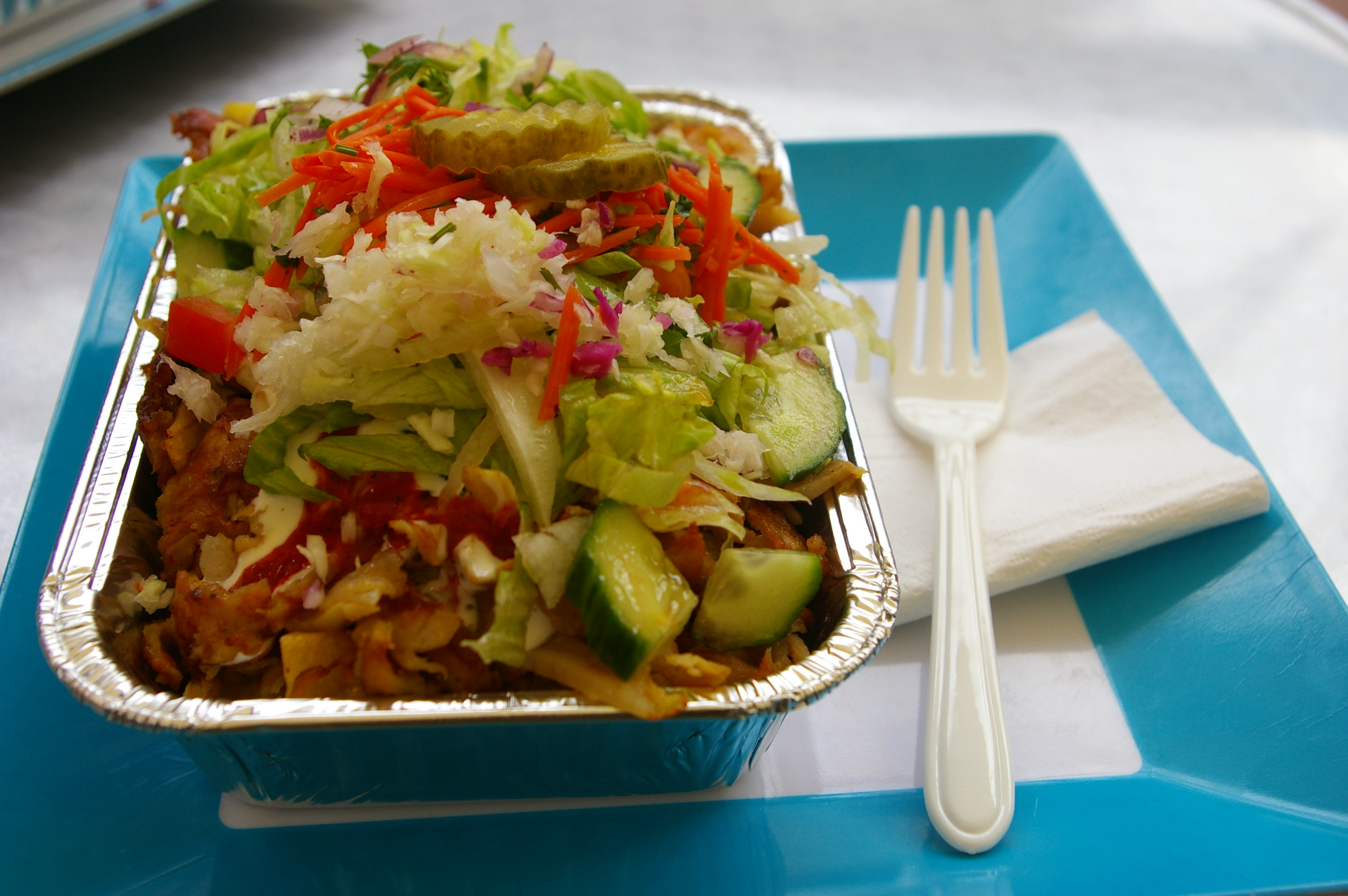 Patat kapsalon (aka just Kapsalon): french fries, grilled meat, sauces, cheese and salad. There was a picture of Kapsalon already, but it had the "low quality" template.